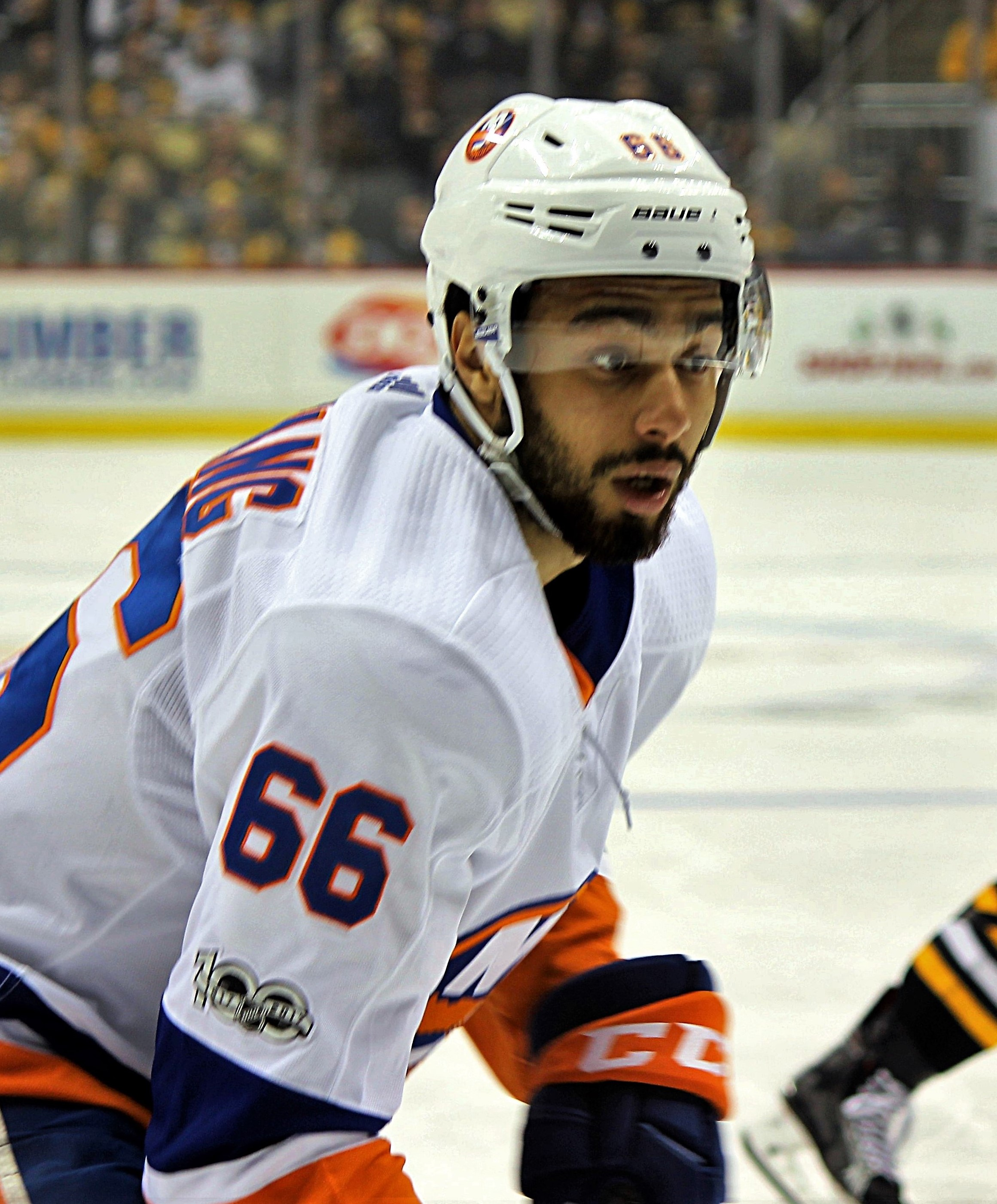 New York Islanders Josh Ho-Sang during a game against the Pittsburgh Penguins, December 7, 2017, at PPG Paints Arena in Pittsburgh, PA.